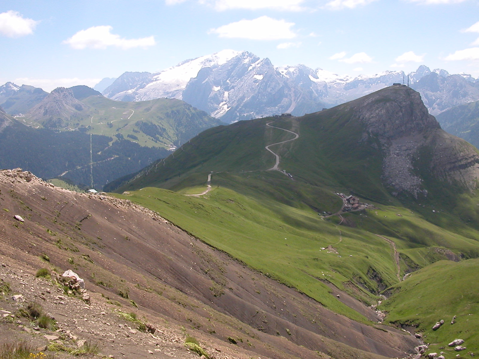 Val di Fassa - Col Rodella (on the right) with Marmolada in the background